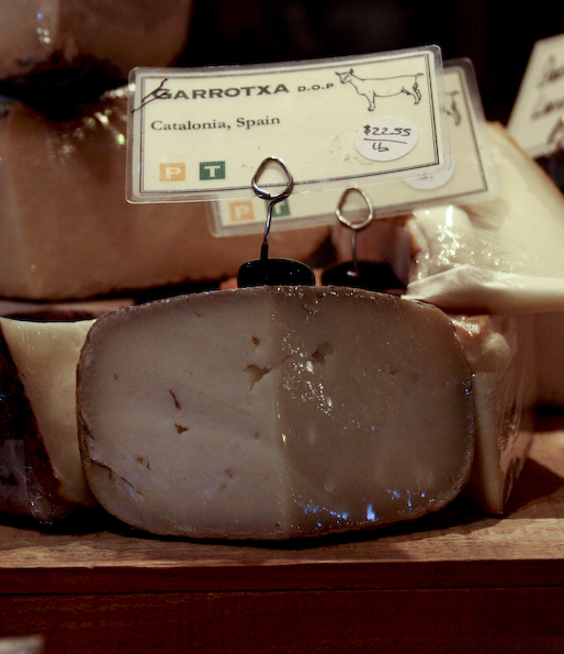 Catalan cheese at the Cowgirl Creamery in Point Reyes Station, CA